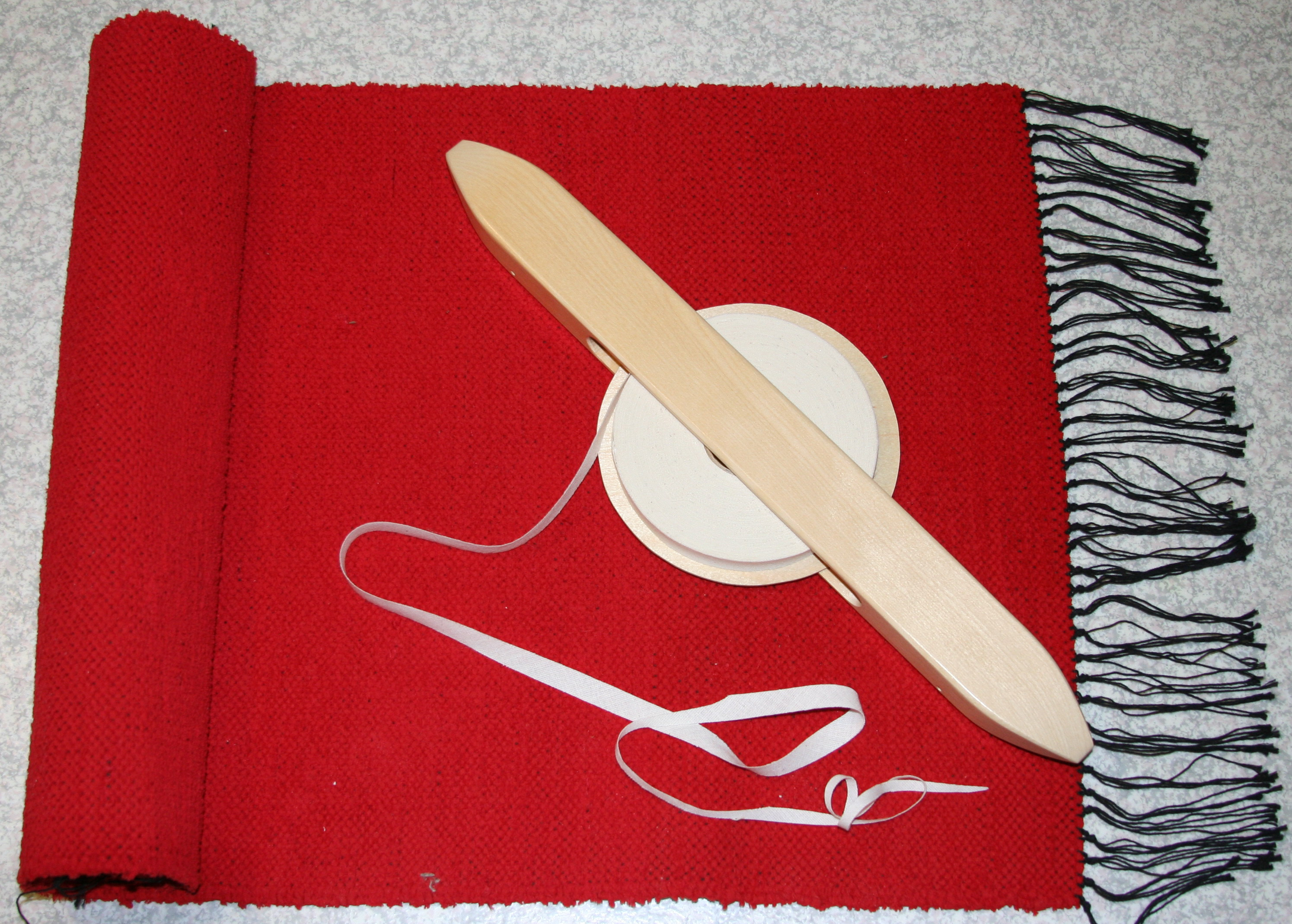 A table cloth made with handloom. Finland. Table cloth and photo by Htm